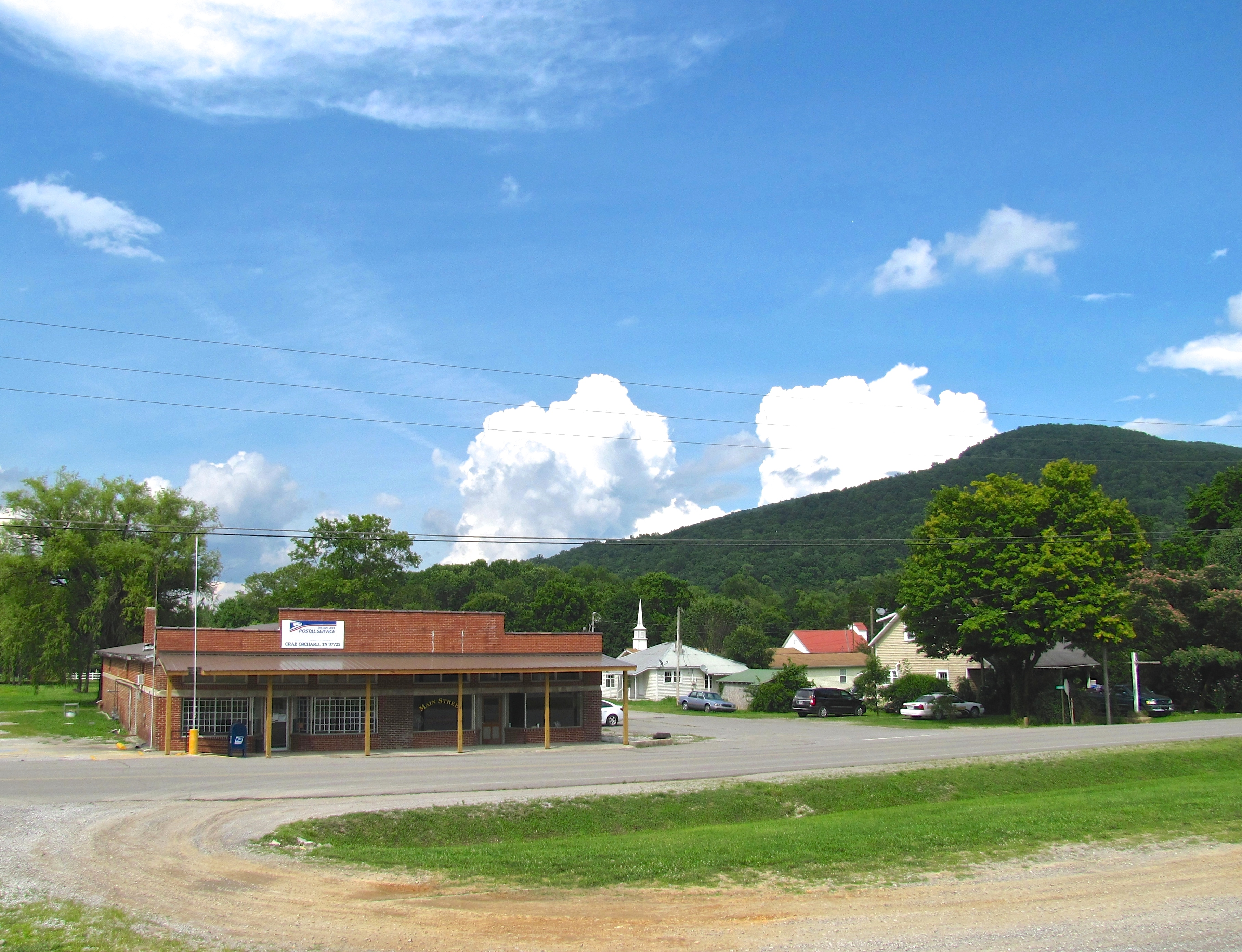 Crab Orchard, Tennessee, United States, looking across the intersection of Main Street and Adams Street. Crab Orchard Mountain rises in the background on the right. The Crab Orchard Post Office is on the left.